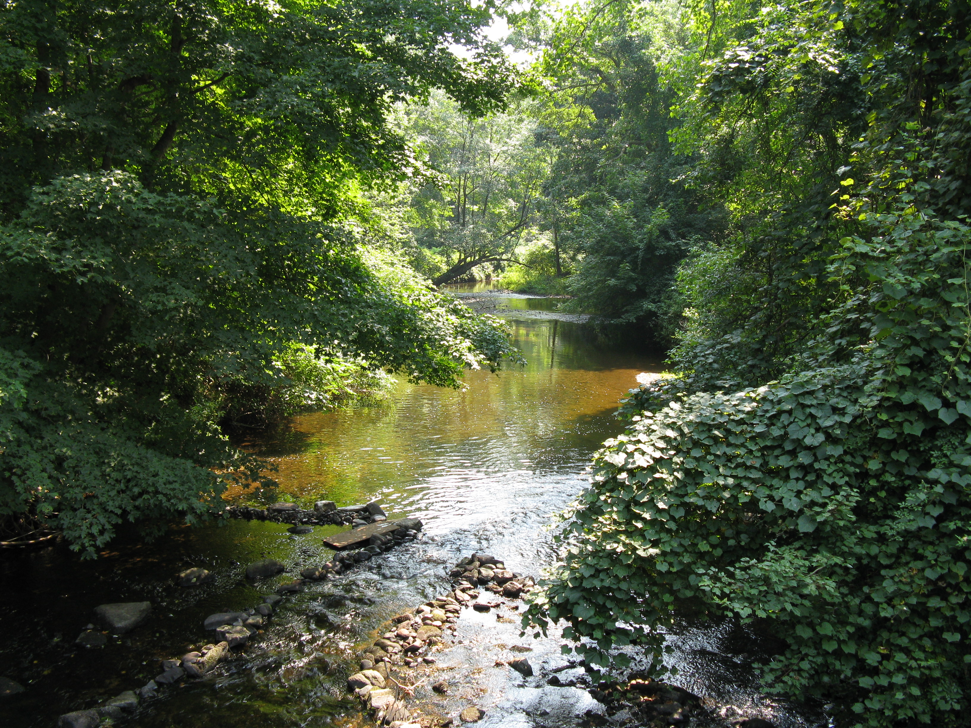 A quiet brook on a warm summer day in Orange, Connecticut, USA.